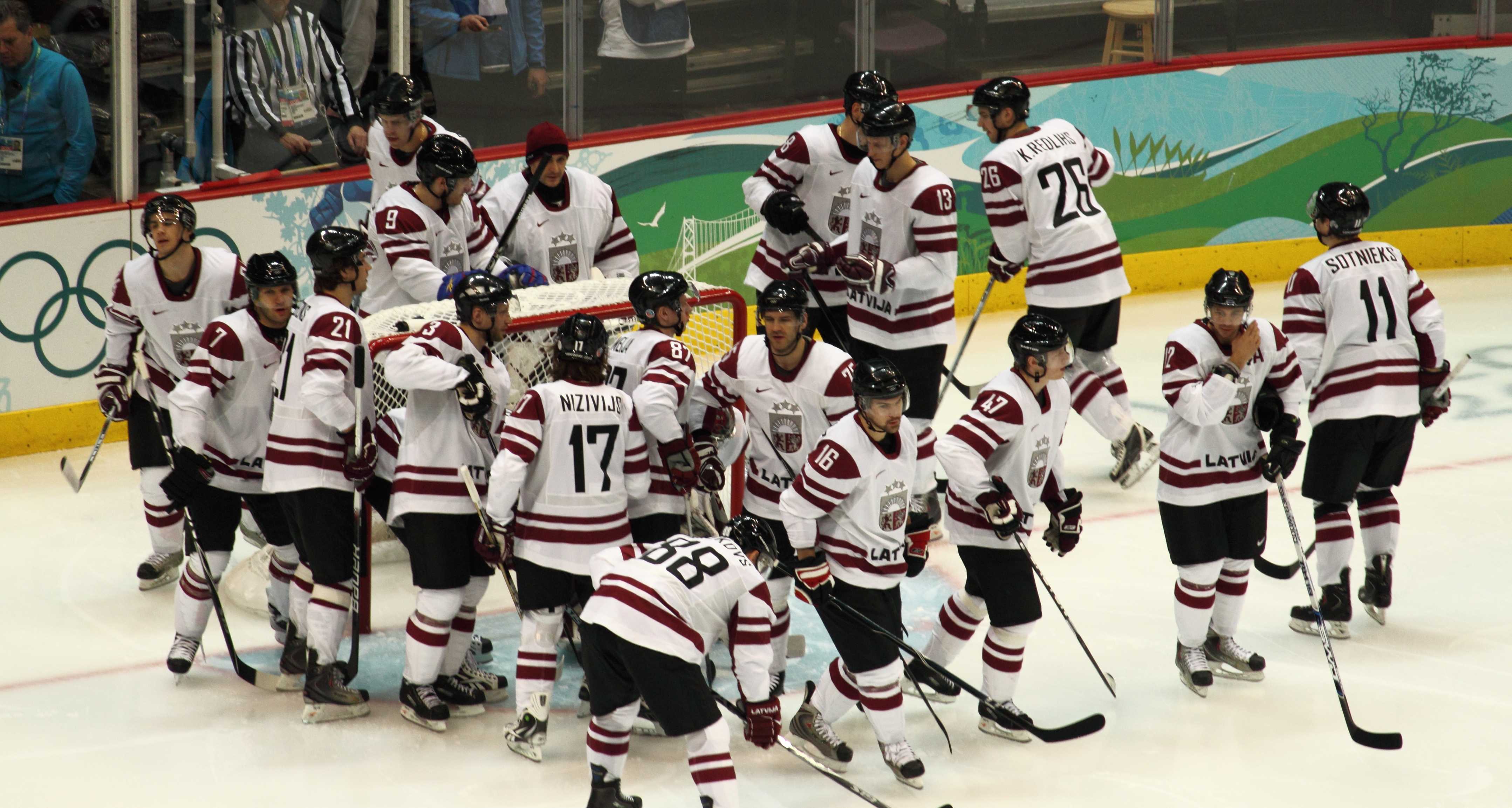 2010 Vancouver Olympic Games - Men's Hockey @ Canada Hockey Place (GM Place)